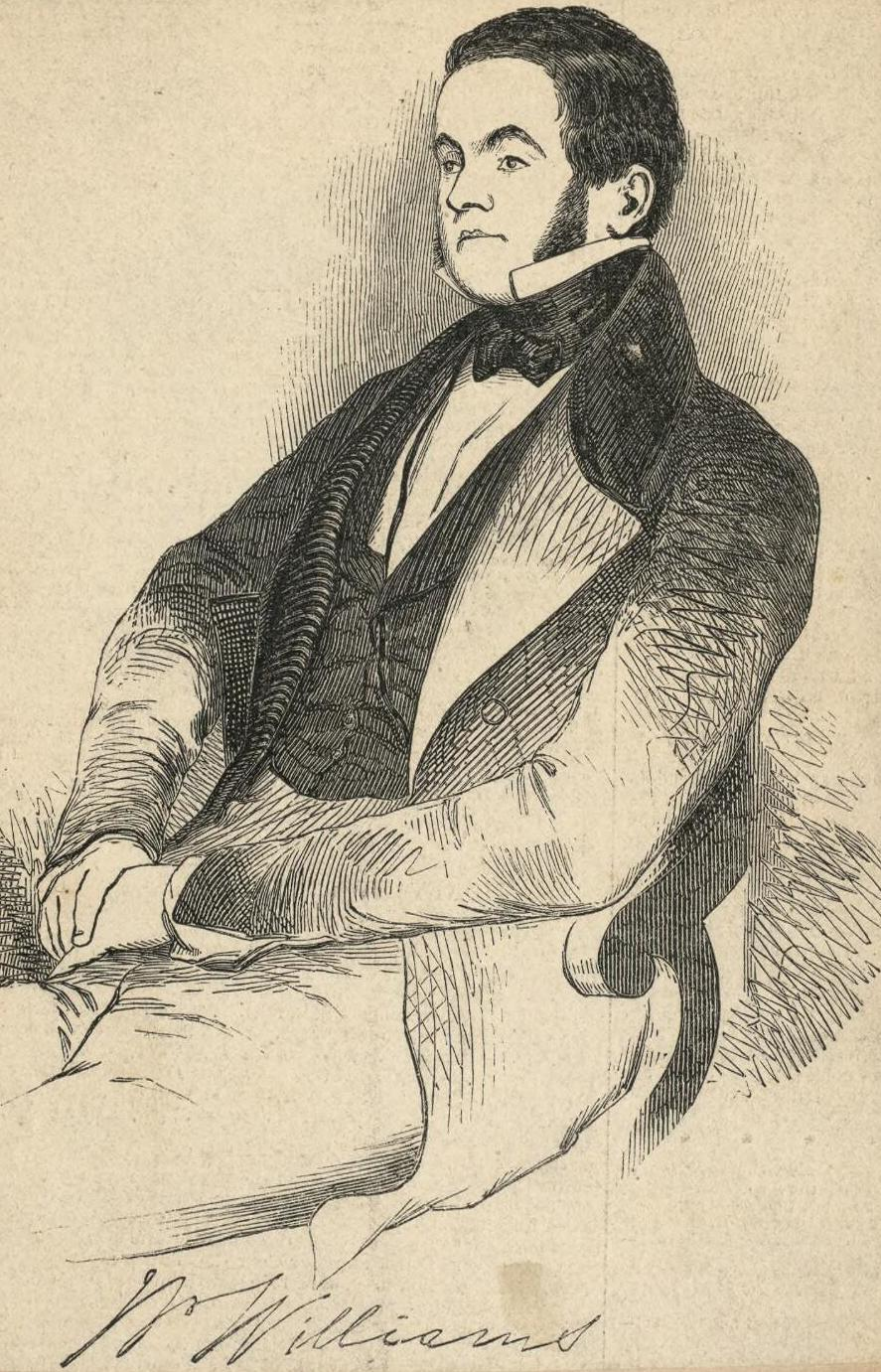 A portrait from the Welsh Portrait Collection at the National Library of Wales. Depicted person: William Williams – Welsh Radical politician, born 1788